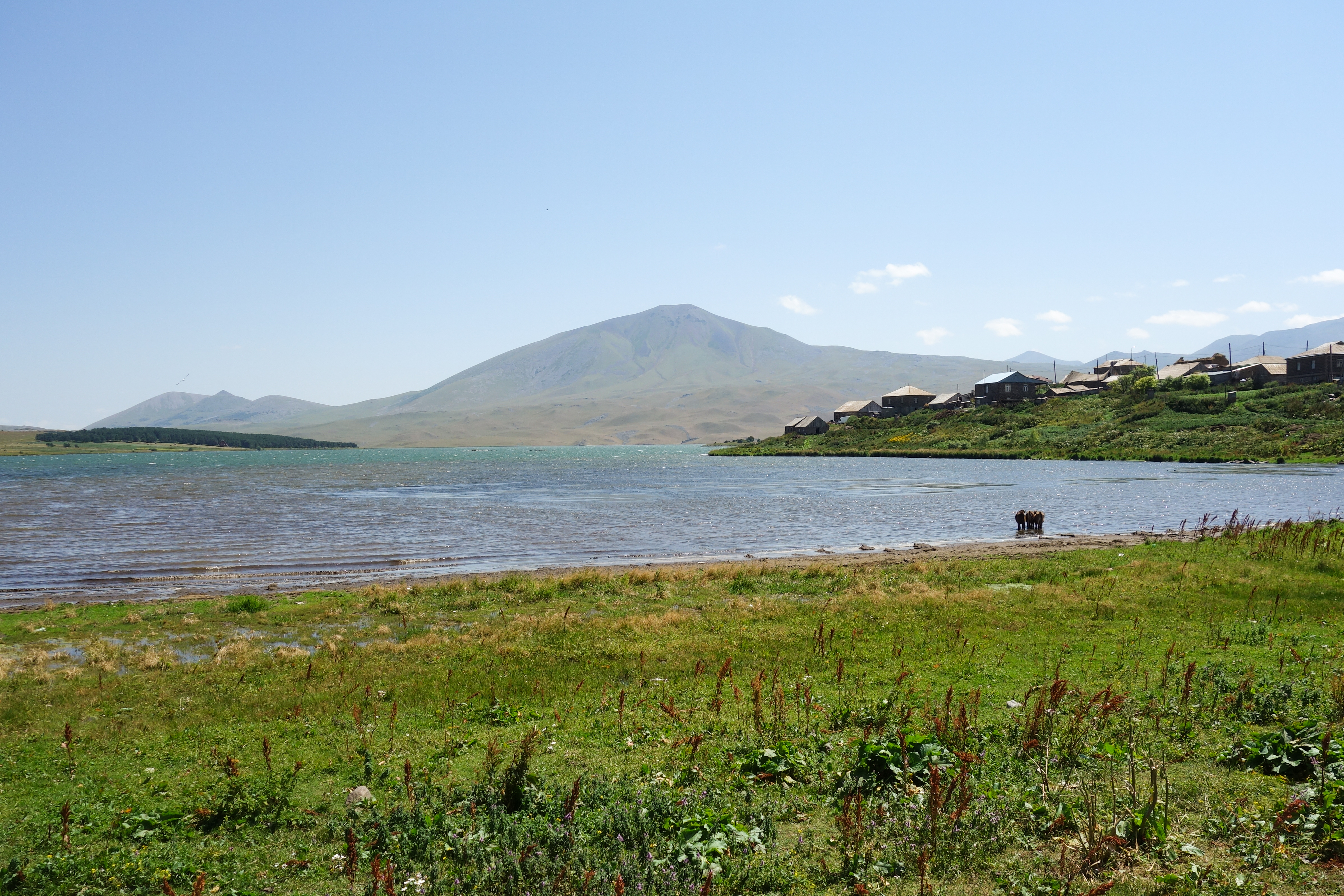 Mount Shavnabada viewed from Tabatskuri village, Samtskhe-Javakheti, Georgia